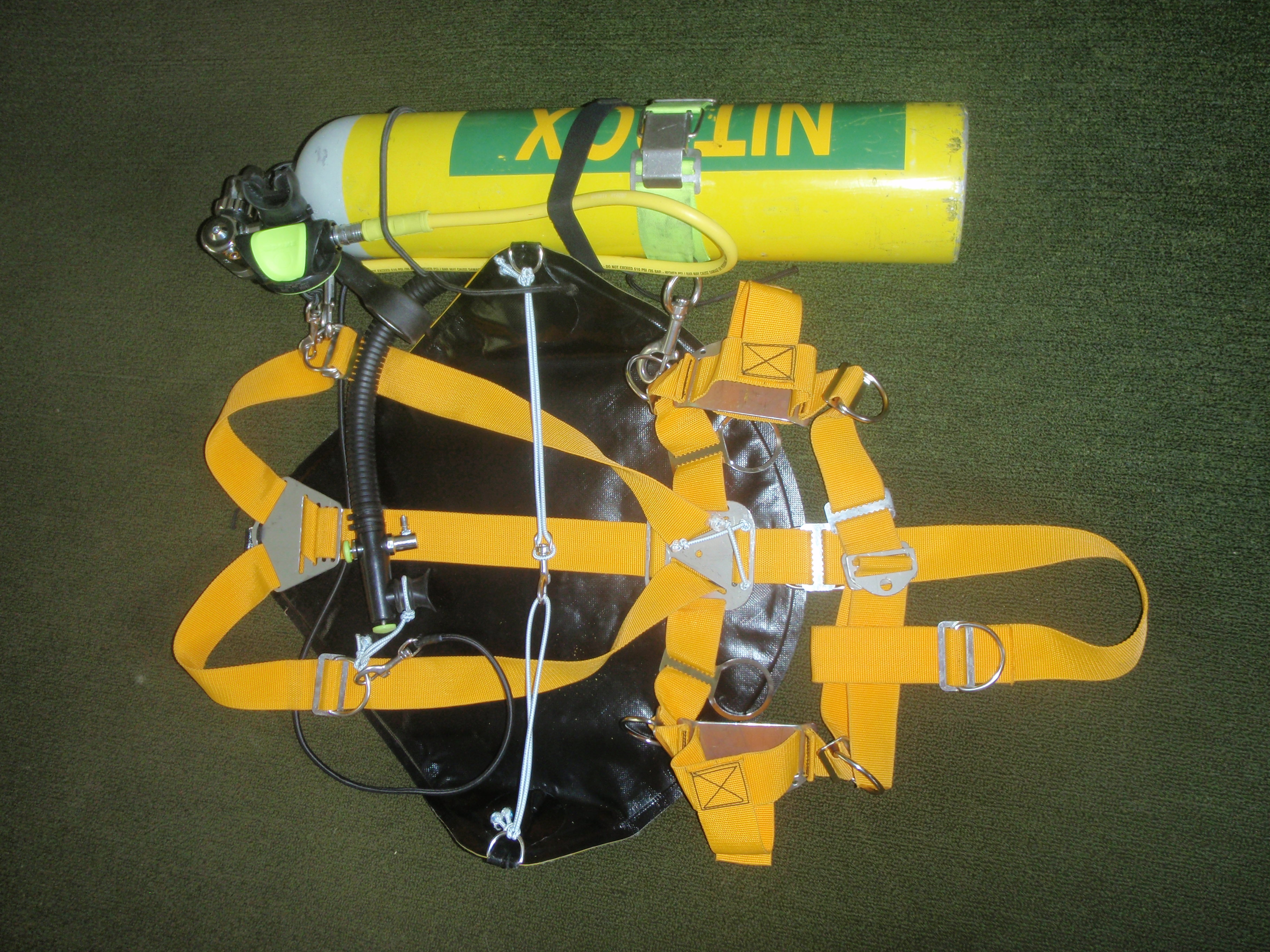 Sidemount harness prototype with buoyancy compensator and integrated weight holders